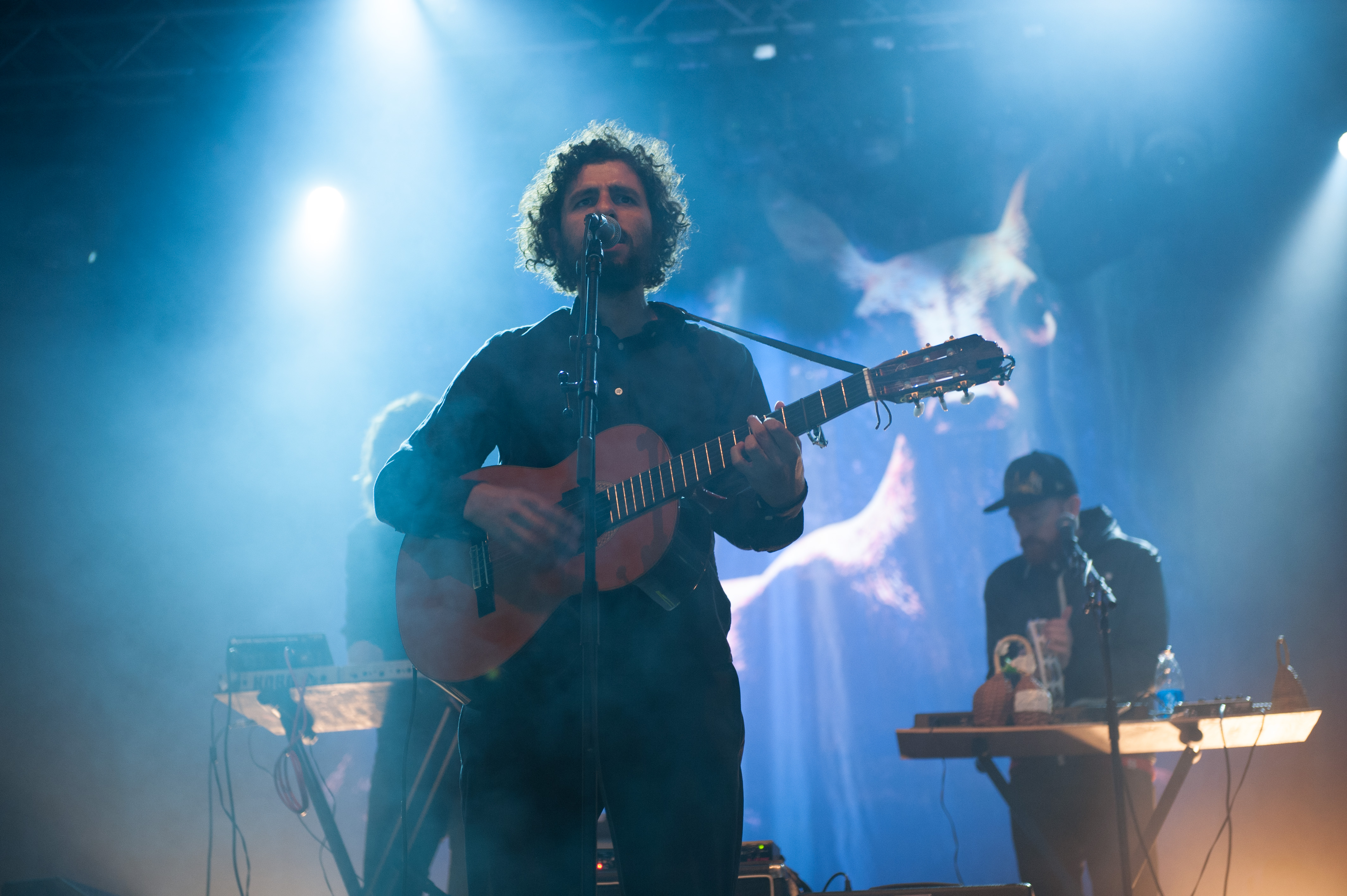 José González of Junip at Way Out West 2013 in Gothenburg, Sweden